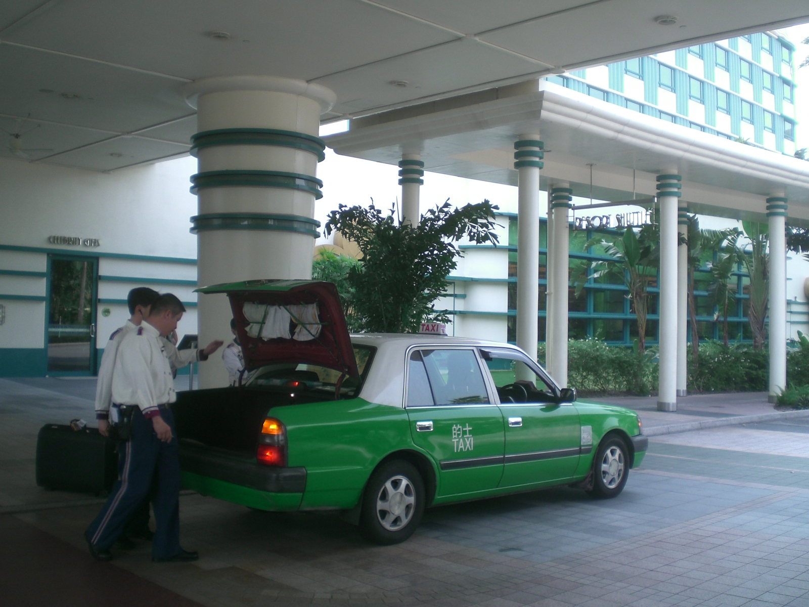 香港zh:迪士尼好萊塢酒店 綠色的 新界的士